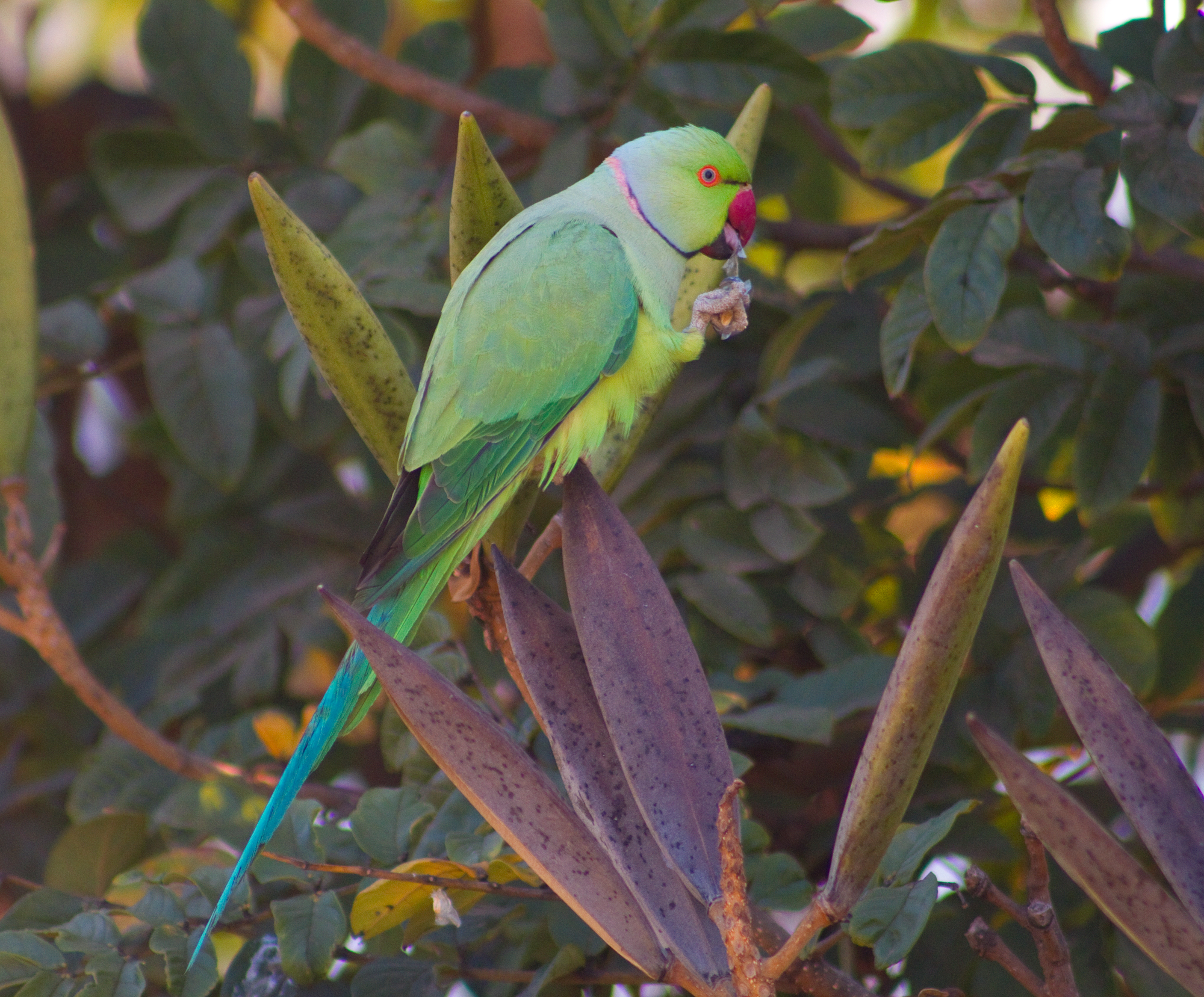 A male Rose-ringed Parakeet in Whitefield, Bangalore, India.